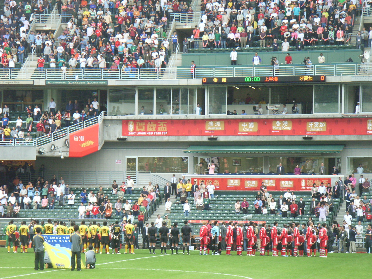 賀歲盃足球賽, Carlsberg Cup, 2007 Lunar New Year Cup. Photo author is me.